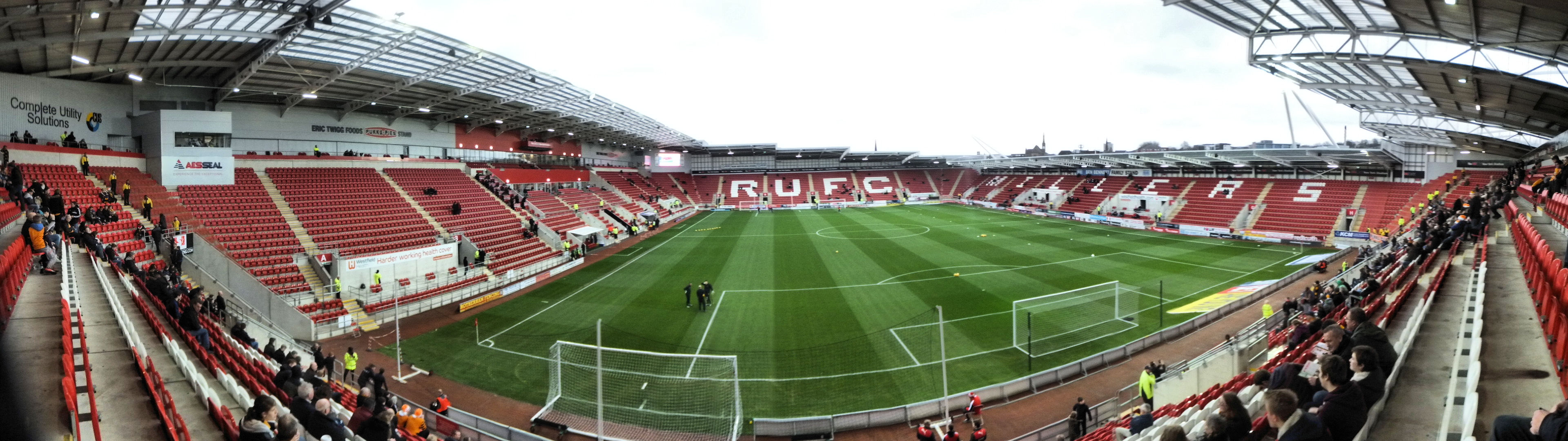 Home to Rotherham United